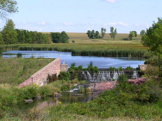 Dam built by the Works Progress Administration to create Upper Mound Lake in Blue Mounds State Park, MN, USA